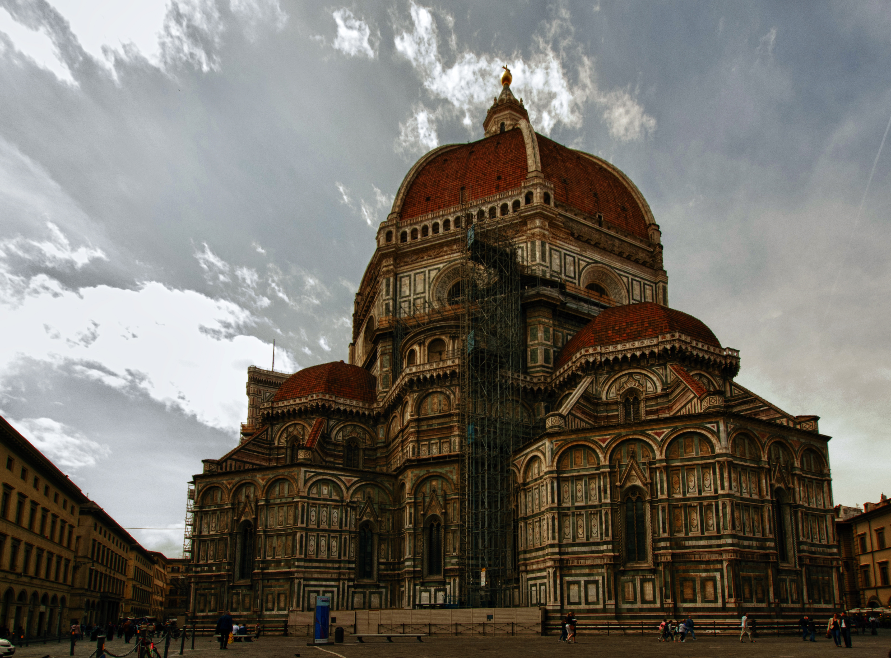 The Basilica di Santa Maria del Fiore is the cathedral church (Duomo) of Florence, Italy, begun in 1296 in the Gothic style to the design of Arnolfo di Cambio and completed structurally in 1436 with the dome engineered by Filippo Brunelleschi. The exterior of the basilica is faced with polychrome marble panels in various shades of green and pink bordered by white and has an elaborate 19th century Gothic Revival facade by Emilio De Fabris.